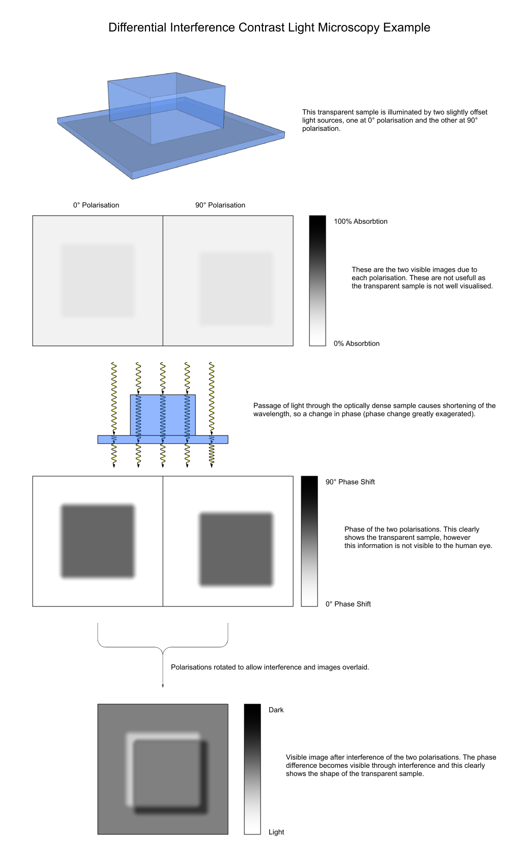 Example of image construction by differential interference contrast microscopy.